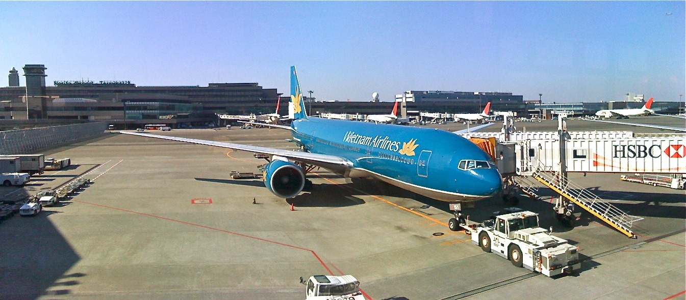 A Vietnam Airlines Boeing 777 at Narita International Airport, with three Japan Airlines' aircraft, the airport's tenant, in the background.